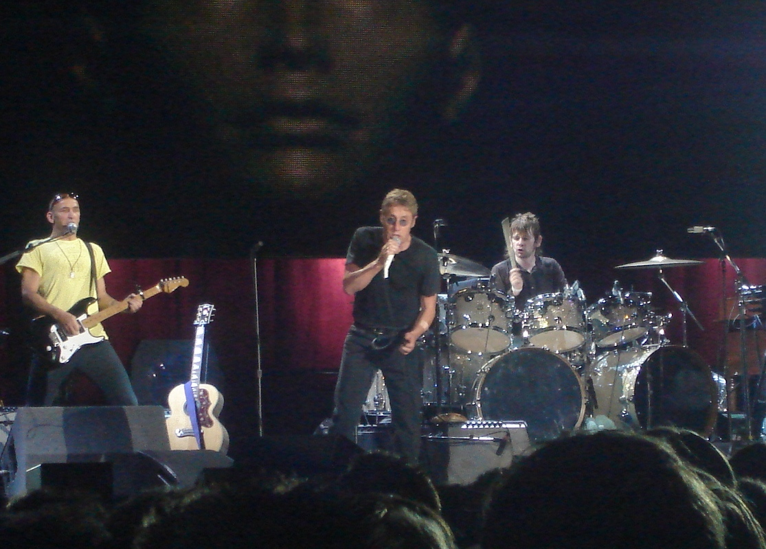 The Who performing at the Rotterdam Ahoy'